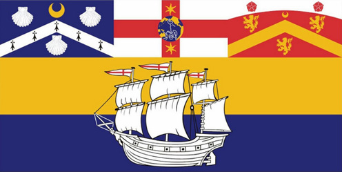 The Flag of Sydney. Its design incorporates features from the City's coat of arms.